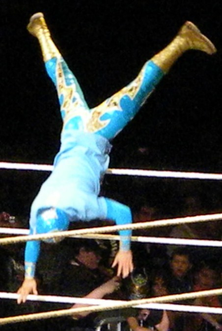 Sin Cara using a trampoline to jump into a wrestling ring